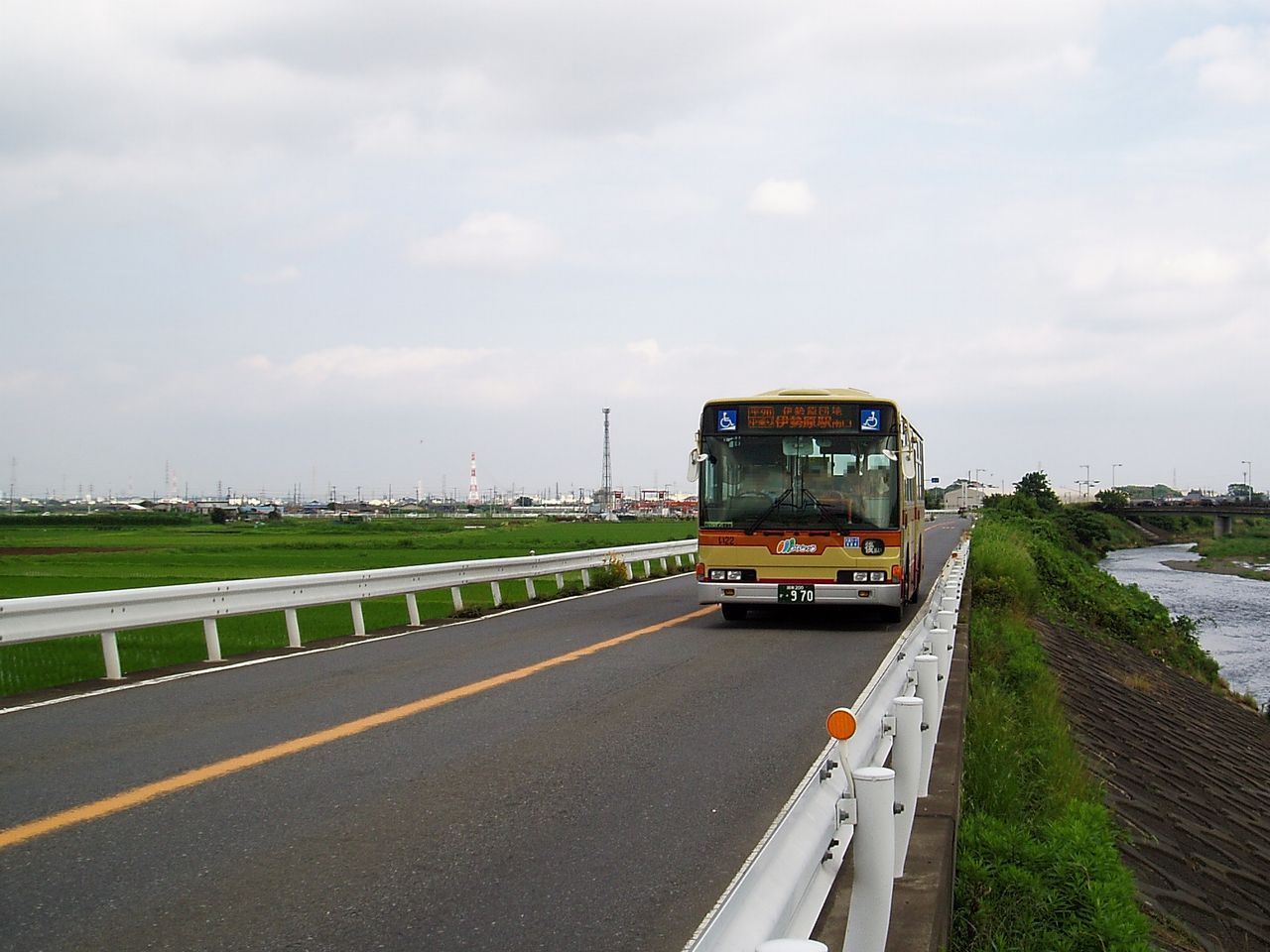 Kanagawa Chuo Kotsu I22 Mitsubishi KL-MP35JM at Yasaki in Isehara City,Kanagawa